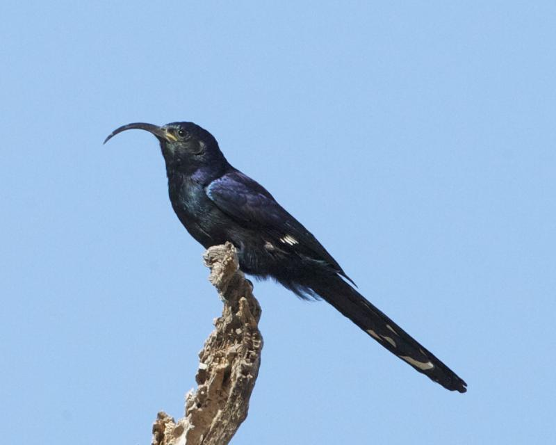 Common Scimitar-bill Rhinopomastus cyanomelas Nominate race, Rhinopomastus cyanomelas cyanomelas Khwai, Botswana 9th. August 2011 Distribution: ssp 690V4308